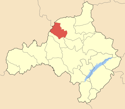 Locator map of Mourikiou municipality (Δήμος Μουρικίου) at Kozanis perfecture, Greece.